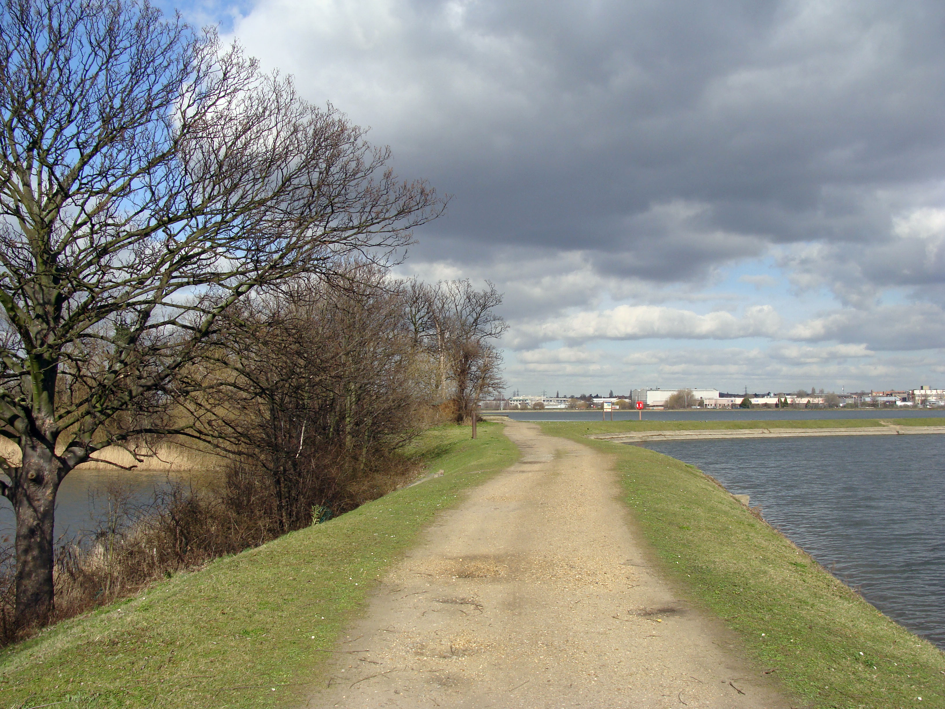 Walthamstow Reservoirs, general view